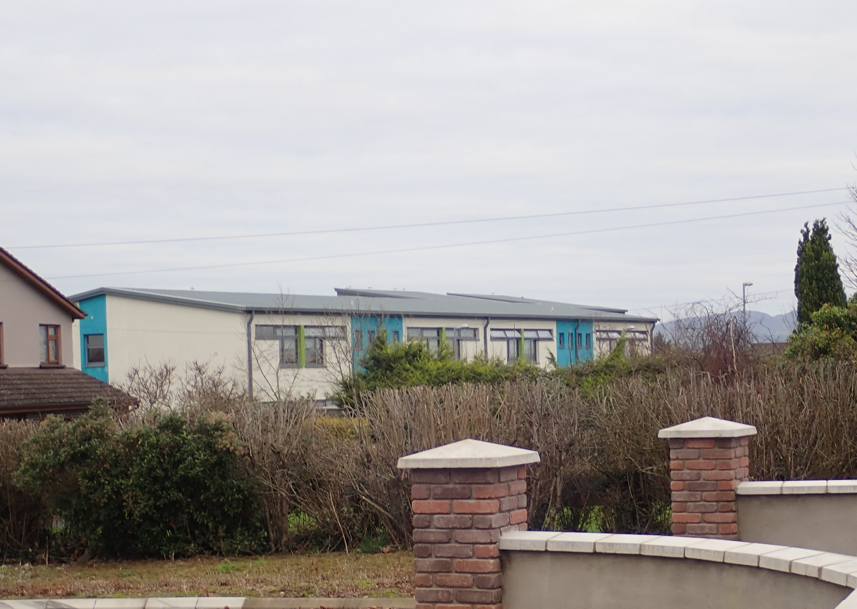 St Francis Primary School. Rock Road, Blackrock